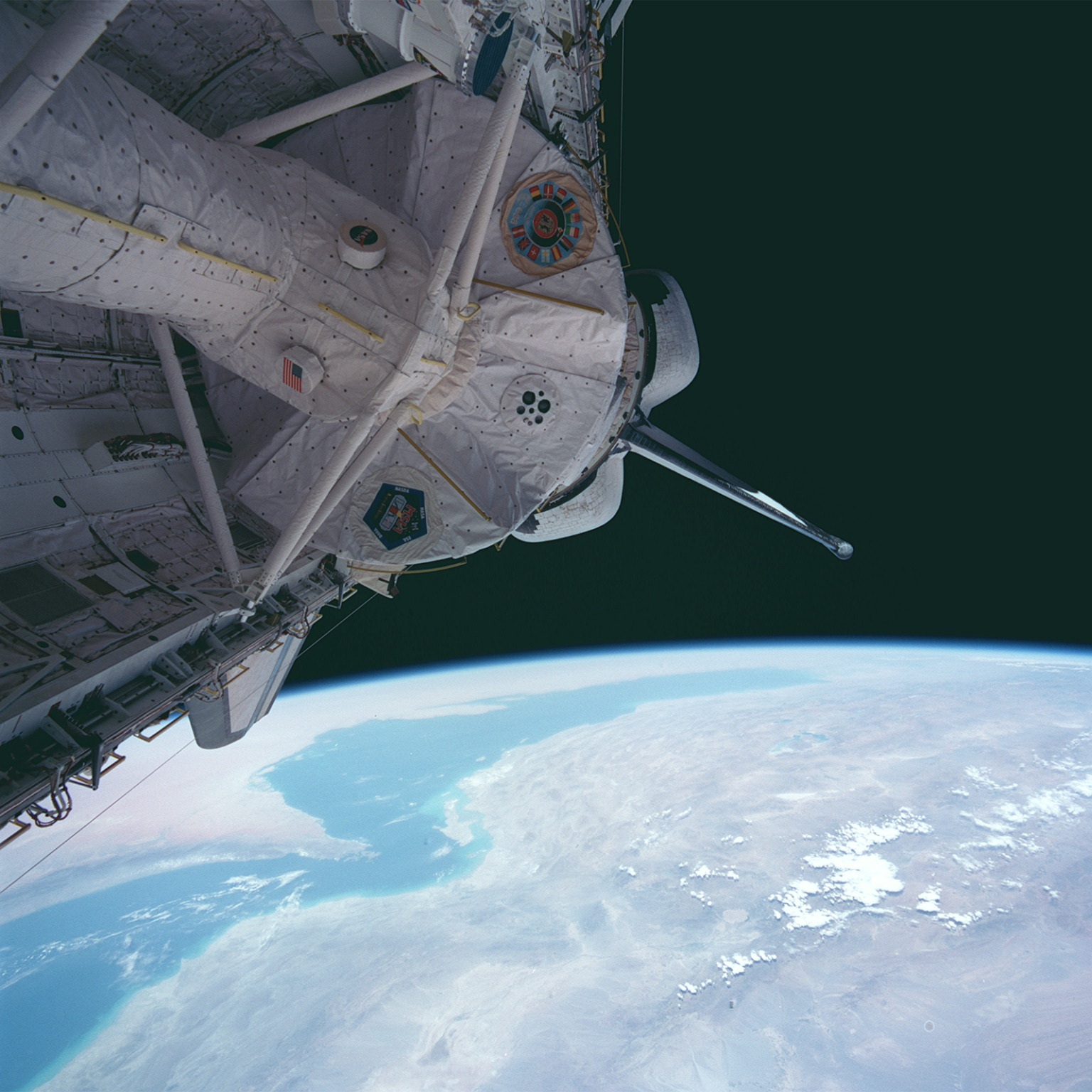 Backdropped against the darkness of space and the Gulf of Hormuz, the cargo bay of the Space Shuttle Columbia and its primary payload, the Microgravity Science Laboratory (MSL-1) Science Module were photographed through aft flight deck windows by one of the crew members of the mission. Five NASA astronauts and two payload specialists went on to spend 16 days supporting the MSL-1 mission in Earth-orbit.